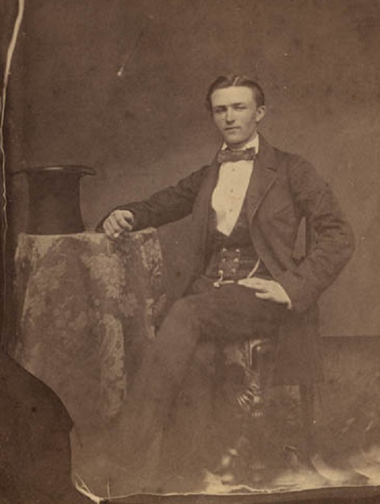 Carl Fredrik Junnelius